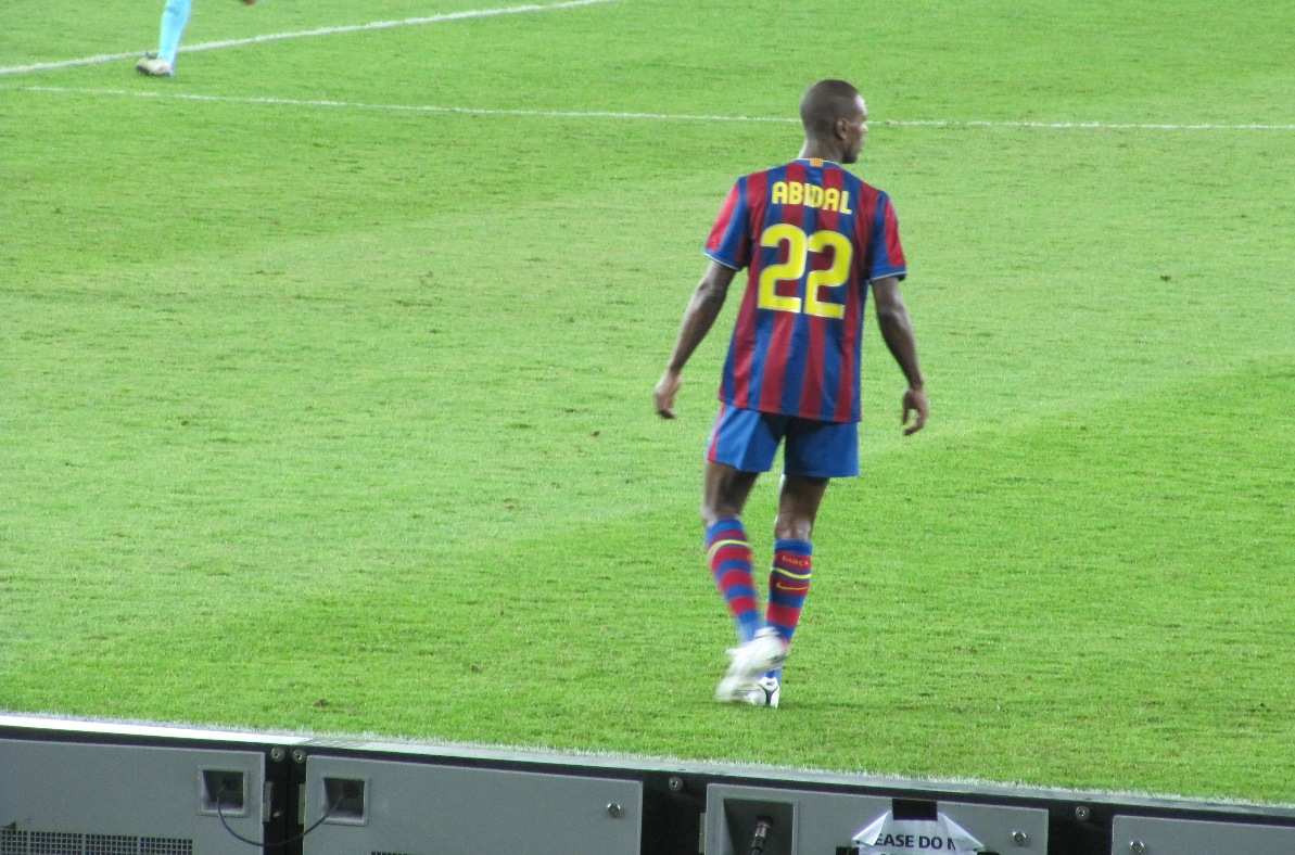 Éric Abidal against Atlante during 2009 FIFA Club World Cup